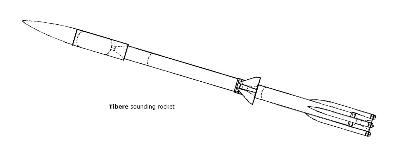 Tibere sounding rocket scheme.